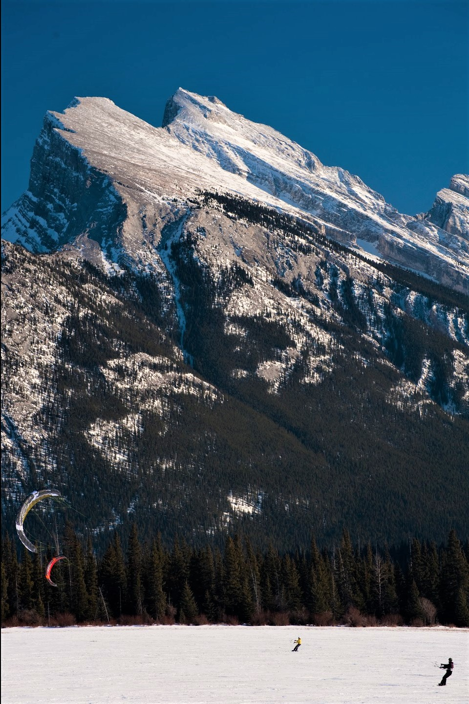 W:Snowkiting on the W:Vermillion Lakes by Mt. Rundle, Banff N.P., in W:Alberta, W:Canada, just outside the Banff townsite. Ir took me a while to get such a symmetrical shot of the kites.